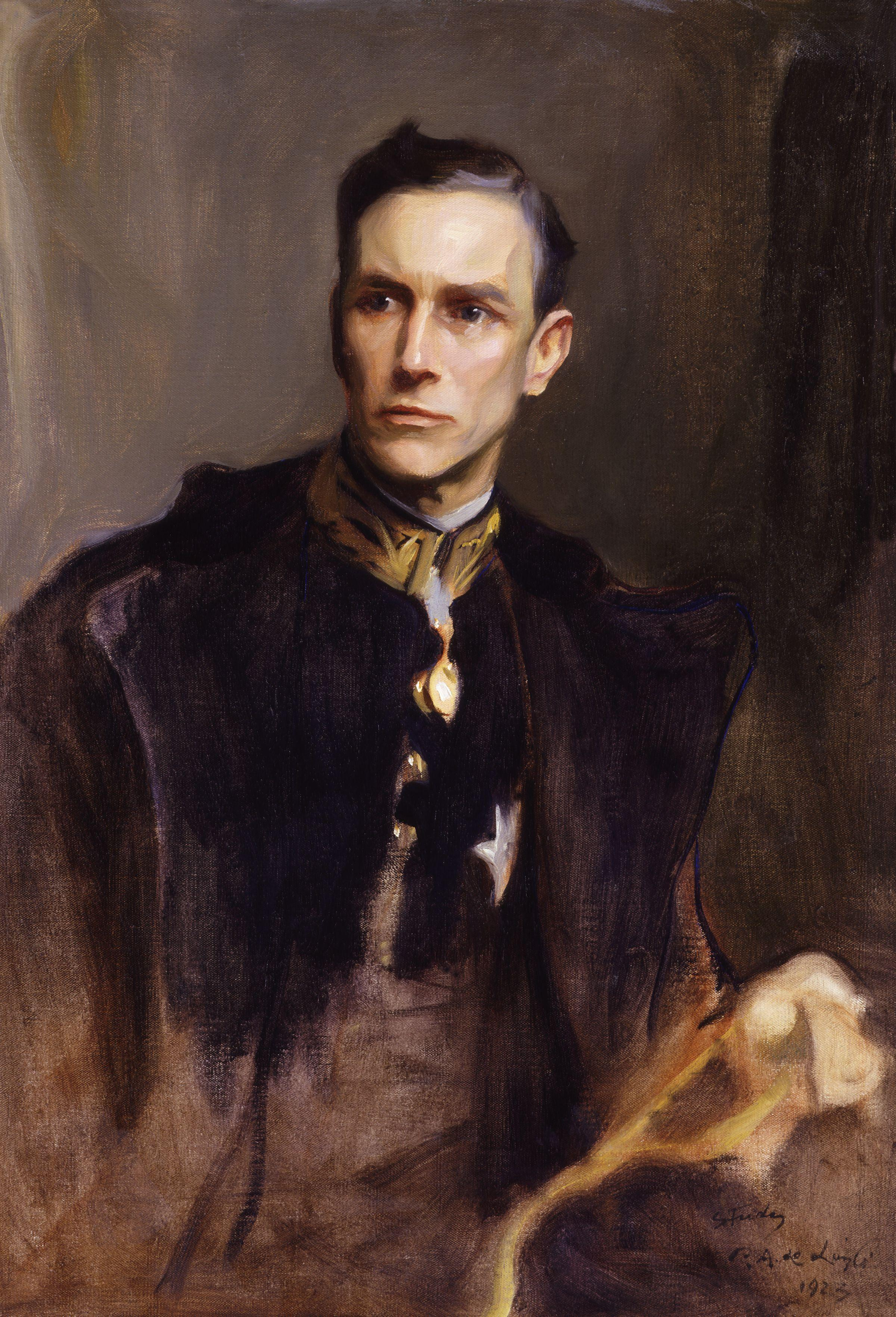 John Loader Maffey, 1st Baron Rugby, by Philip Alexius de László (died 1937), given to the National Portrait Gallery, London in 2001. All images in this batch have been confirmed as author died before 1939 according to the official death date listed by the NPG.